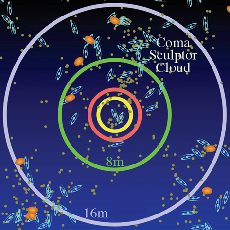 Comparison of the resolutions of ATLAST, HST and JWST